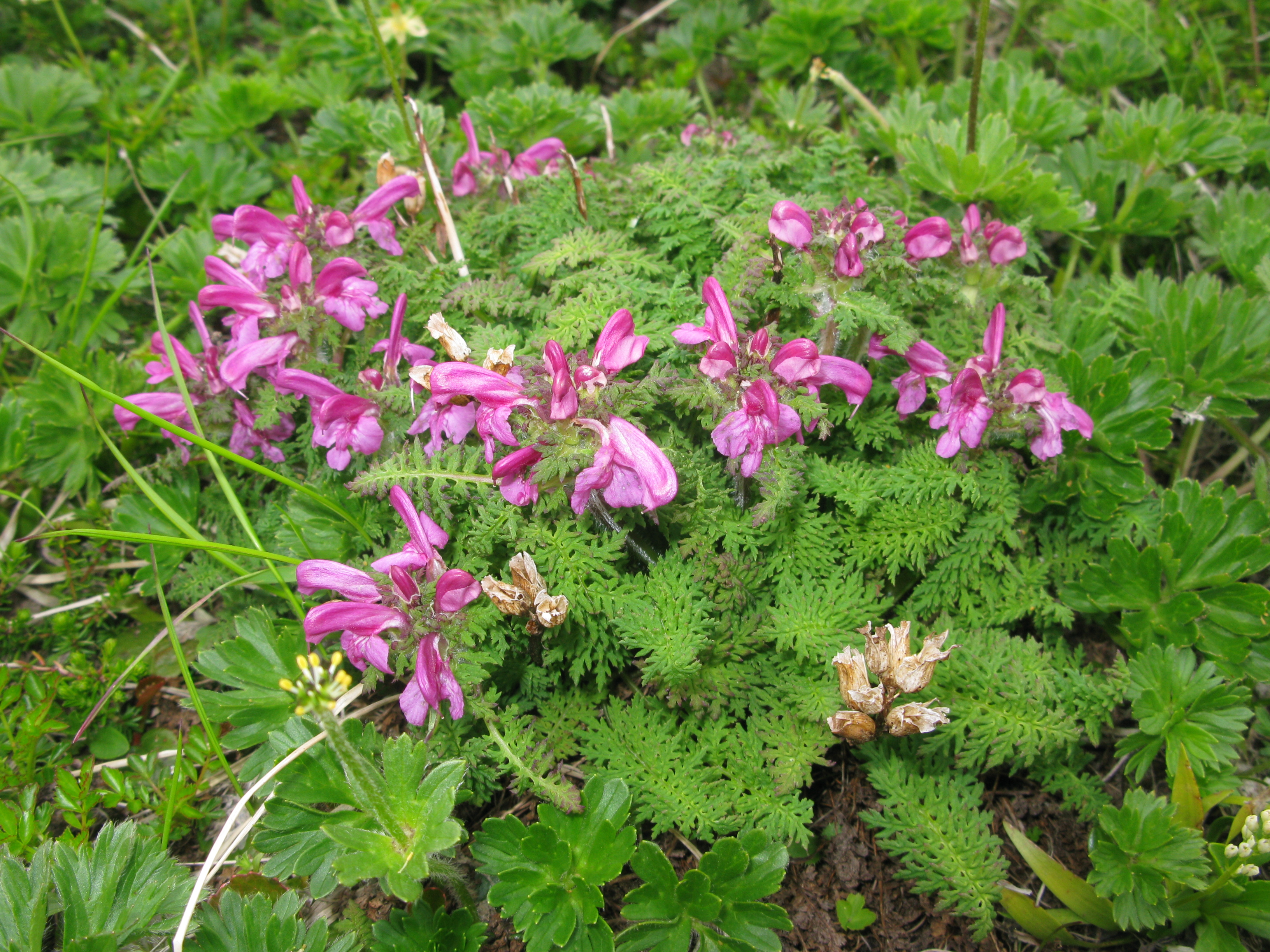 Pedicularis apodochila, Mount Gassan, Yamagata pref., Japan